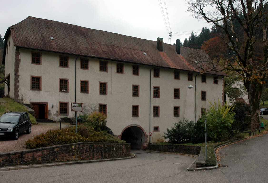 "long house" of abandoned monastery in Wittichen.